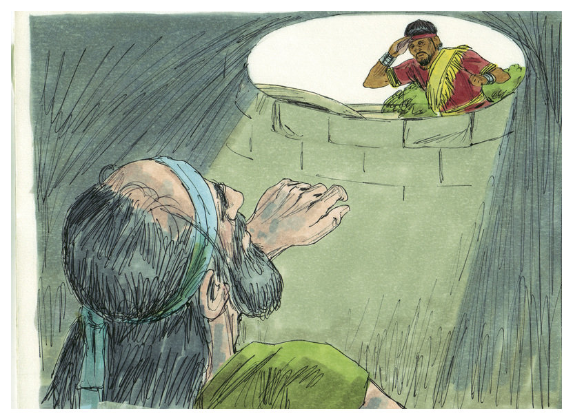 Biblical illustration of Book of Jeremiah Chapter 38